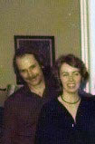 Duhcan and Mary Wallace in Milton ON